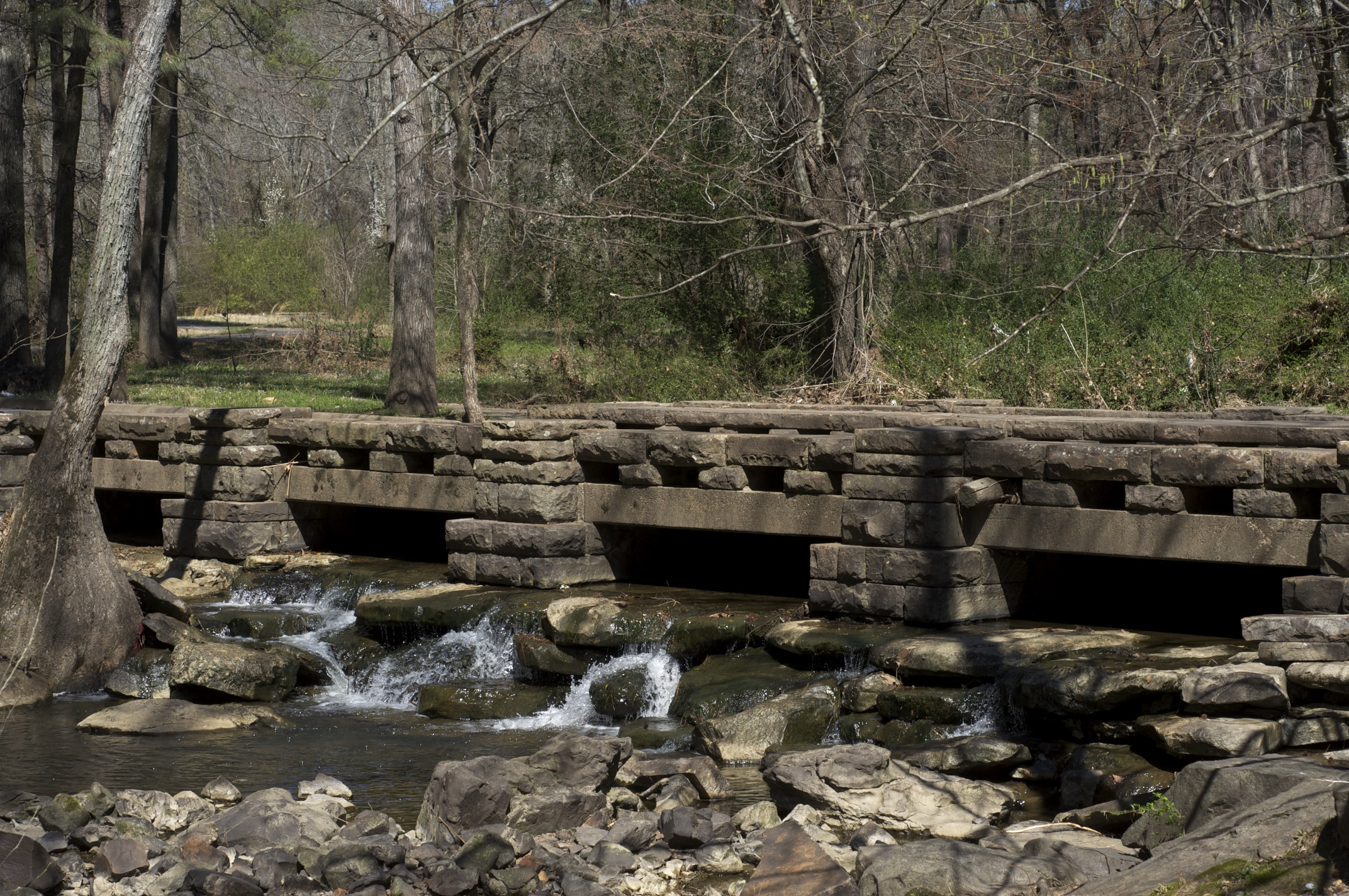 The CCC built this low-water bridge across Rock Creek in the late 30s. Boyle Park, Pulaski County, Little Rock, Arkansas